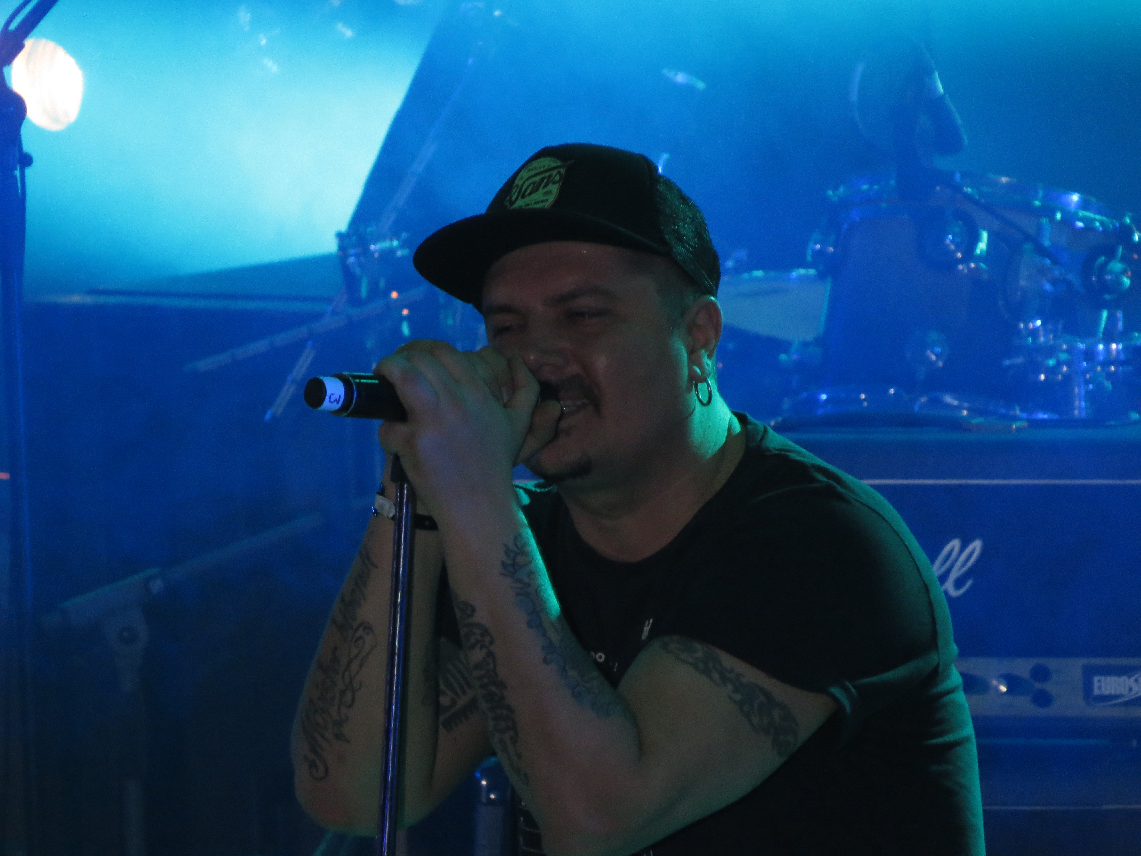 Concert "20 years of Runet" in Arena Moscow. April 7, 2014.